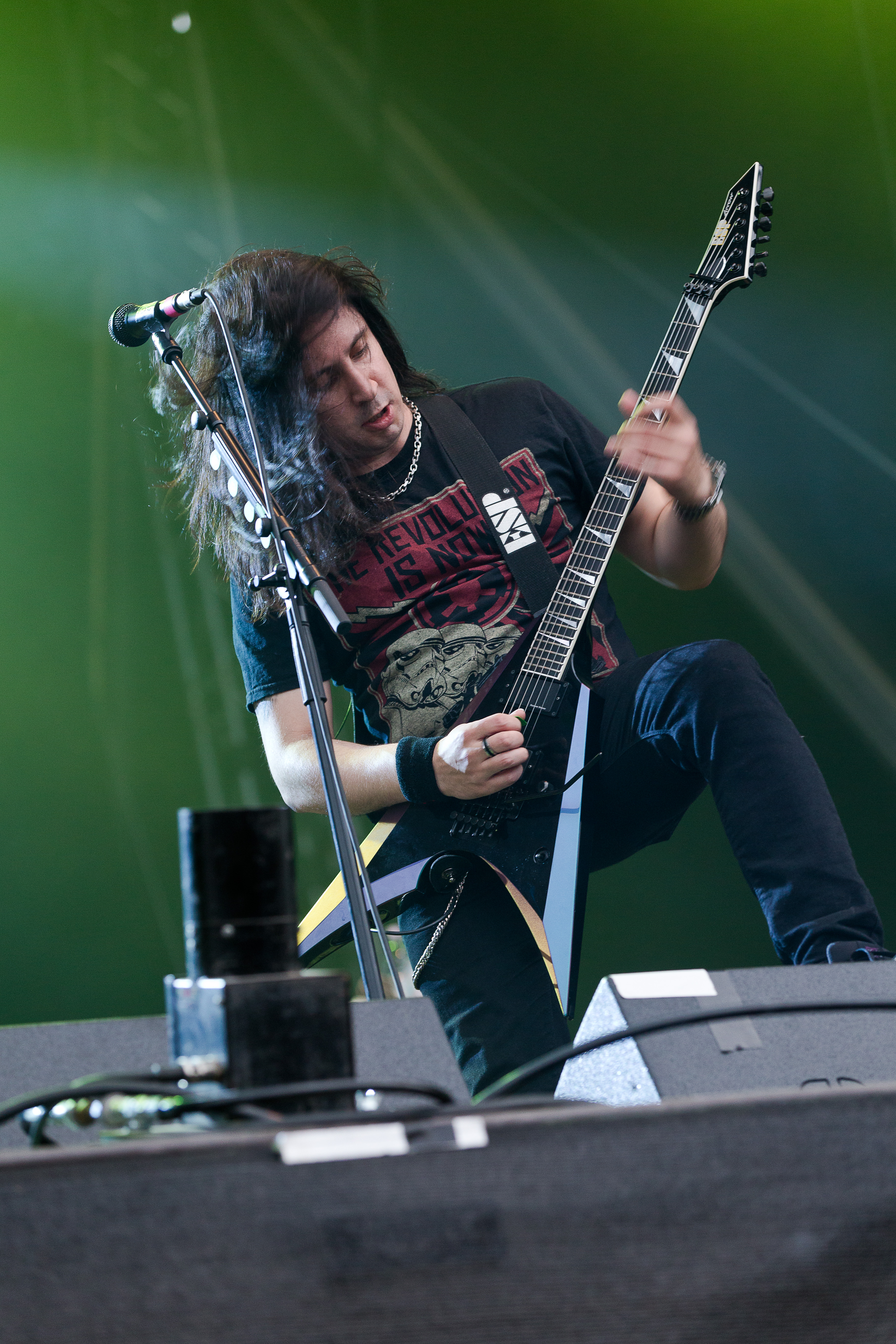 The Finnish melodic death metal band Children of Bodom at the Rockharz Open Air 2016 in Ballenstedt/Germany.